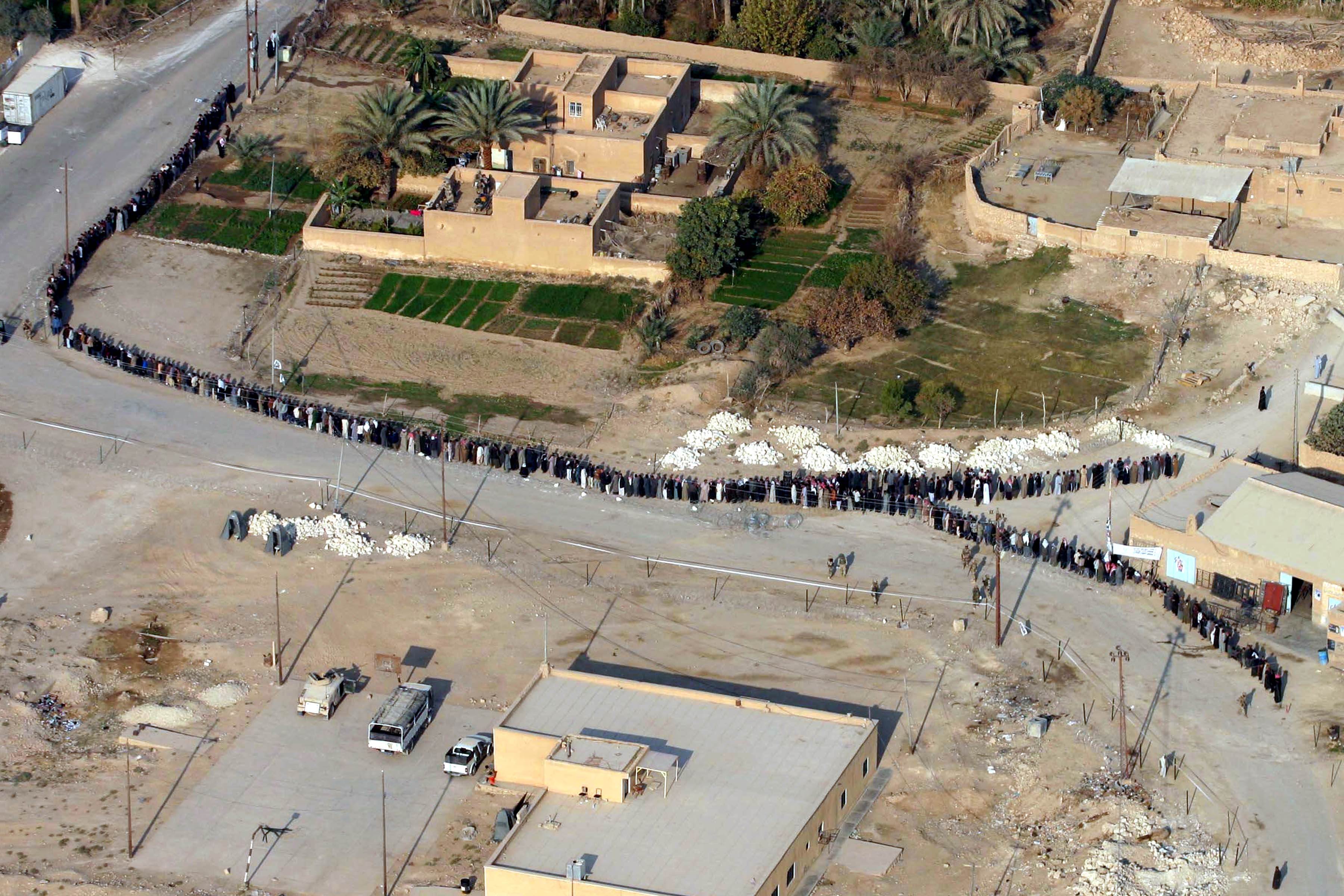 Iraqi voters gather around a polling site in Barwana, Iraq, to vote for the first fully constitutional parliament in Iraq.